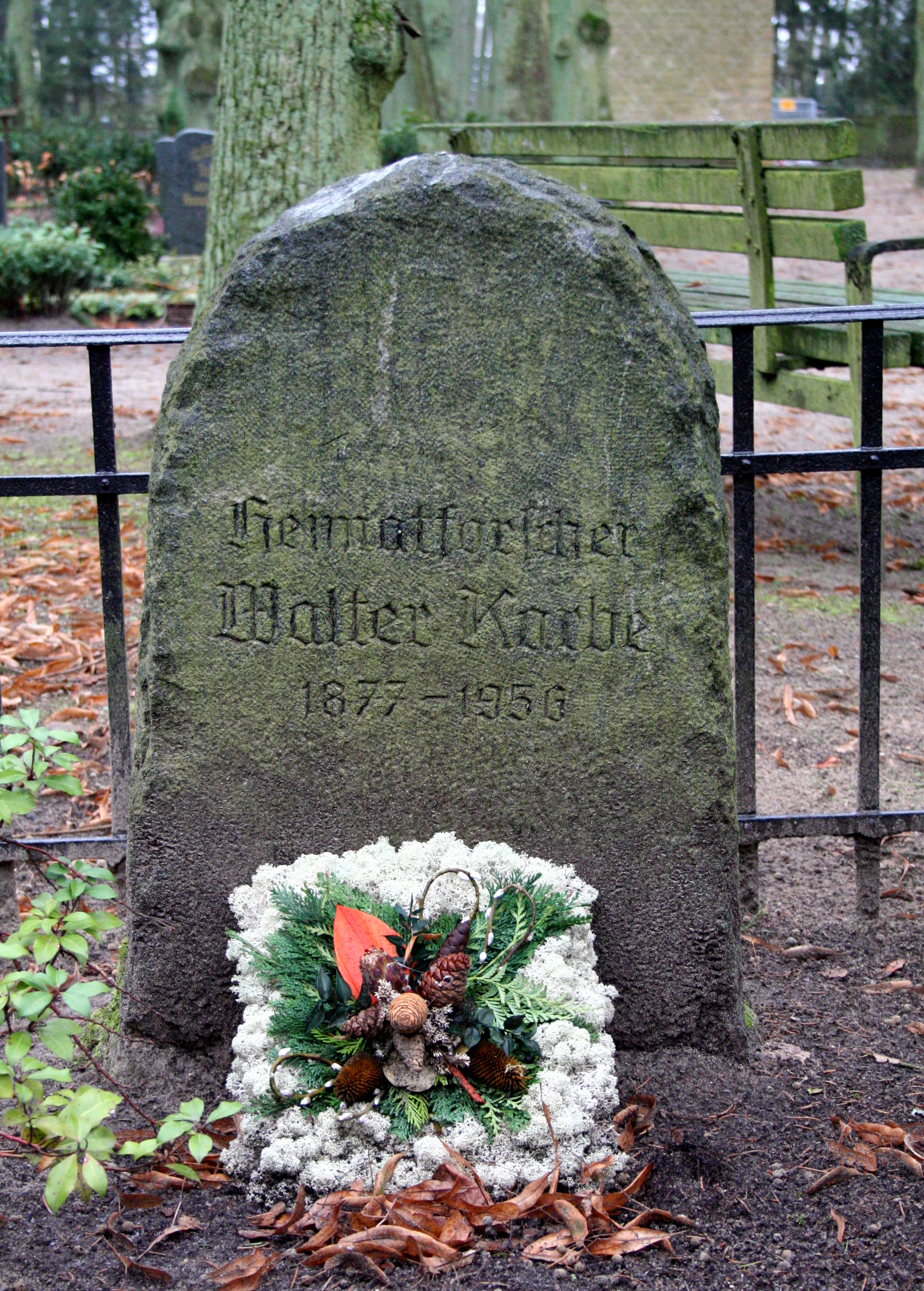 The grave of Walter Karbe in Neustrelitz.